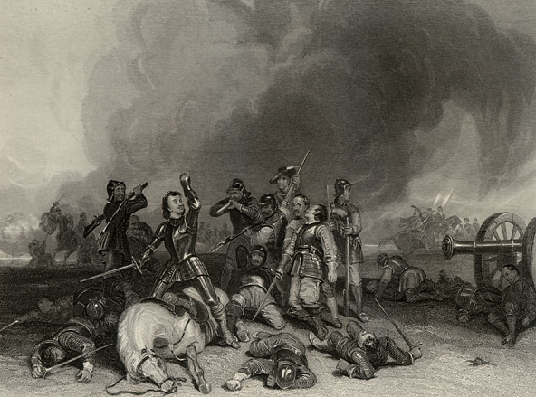 Steel engraving entitled Battle of Hopton Heath